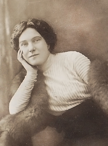 Detail from image of actress Suzanne Desprès on a Felix Potin 2e (Second) Collection card from France (1908) 2 15/16" x 1 5/8" (7.5 x 4 cm)